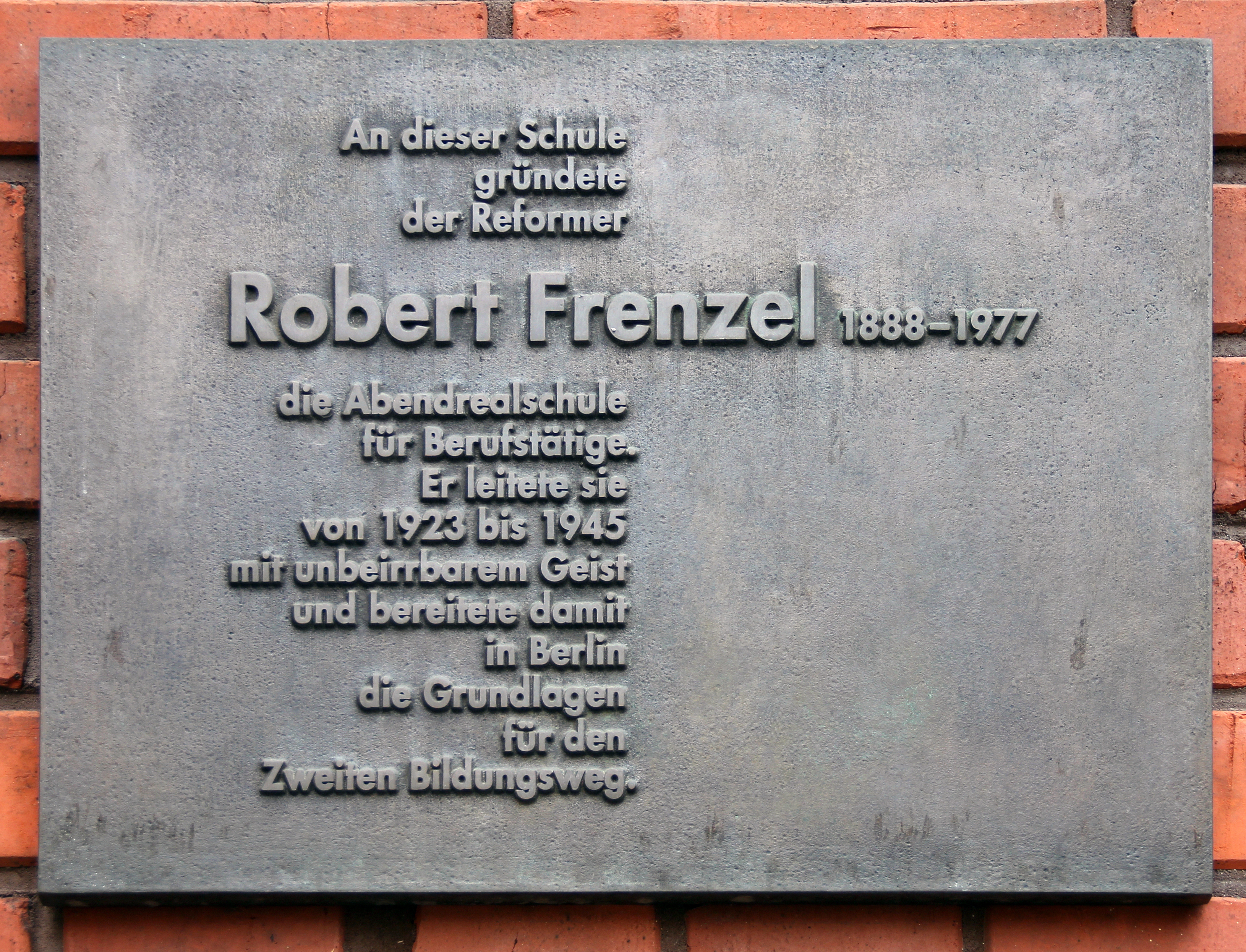 Memorial plaque, Robert Frenzel, Gipsstraße 23a, Berlin-Mitte, Germany